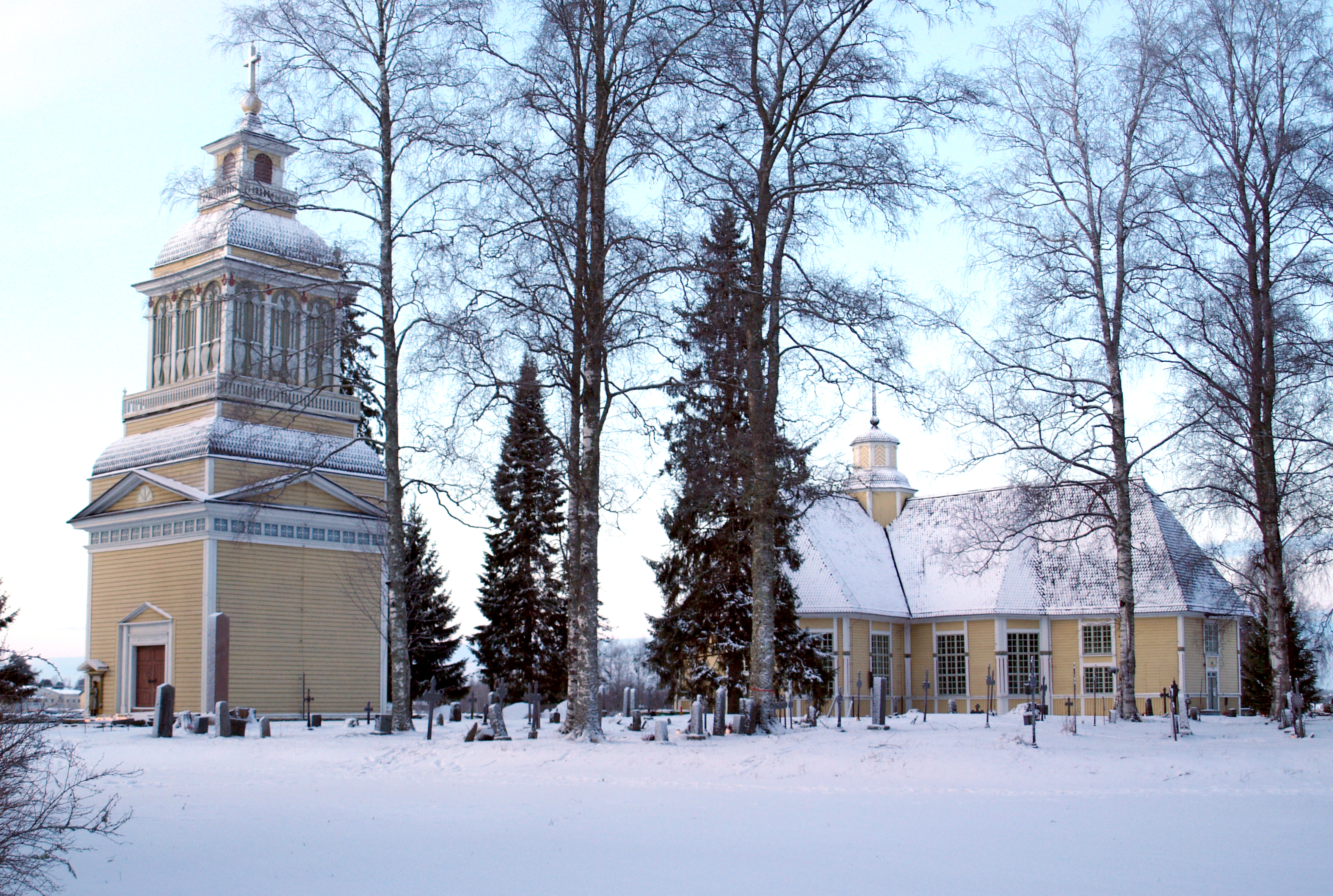 Lappajärvi Church, 2014.